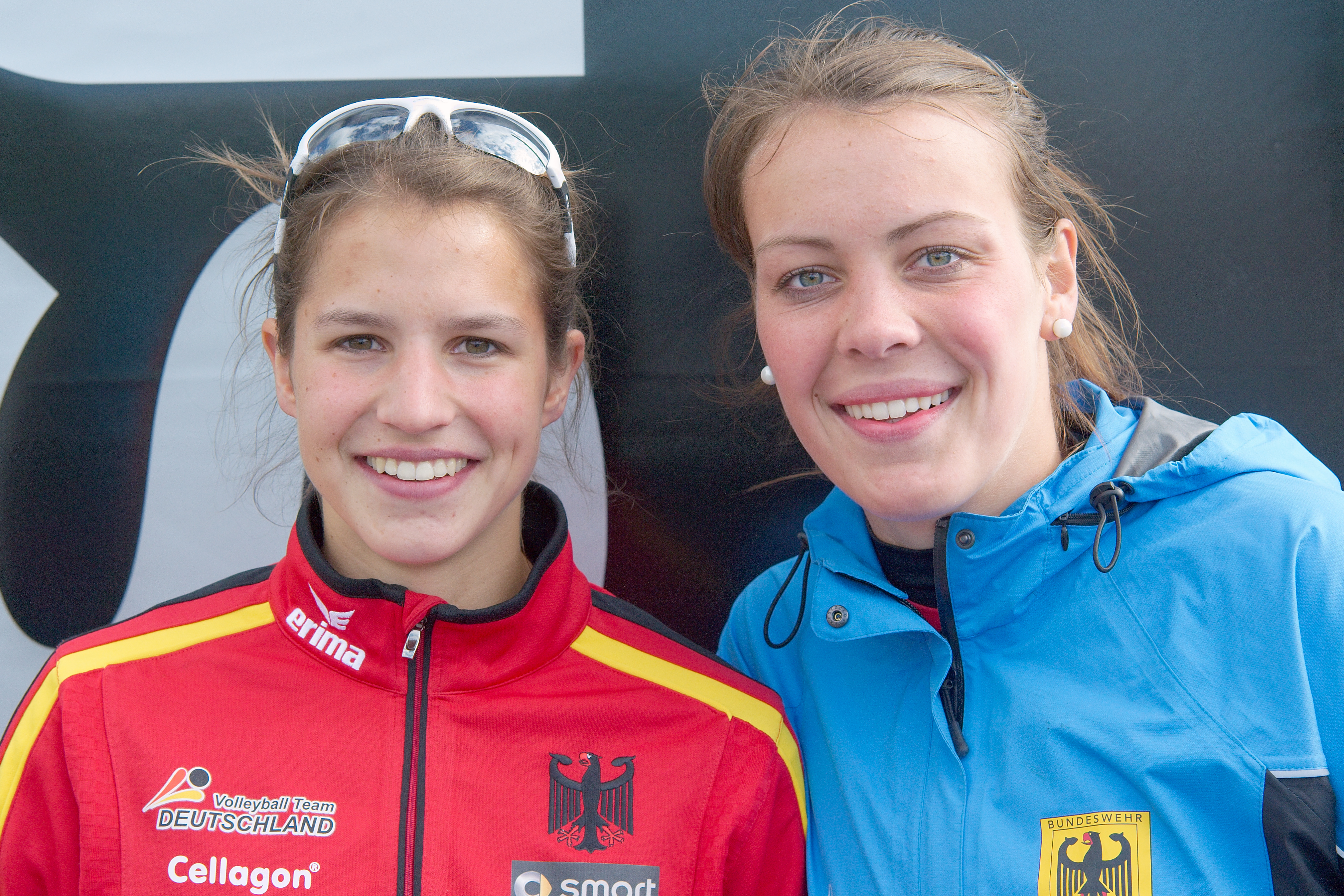 The German beach volleyball team Chantal Laboureur and Christine Aulenbrock at the Smart Beach Tour tournament in Münster 2012.